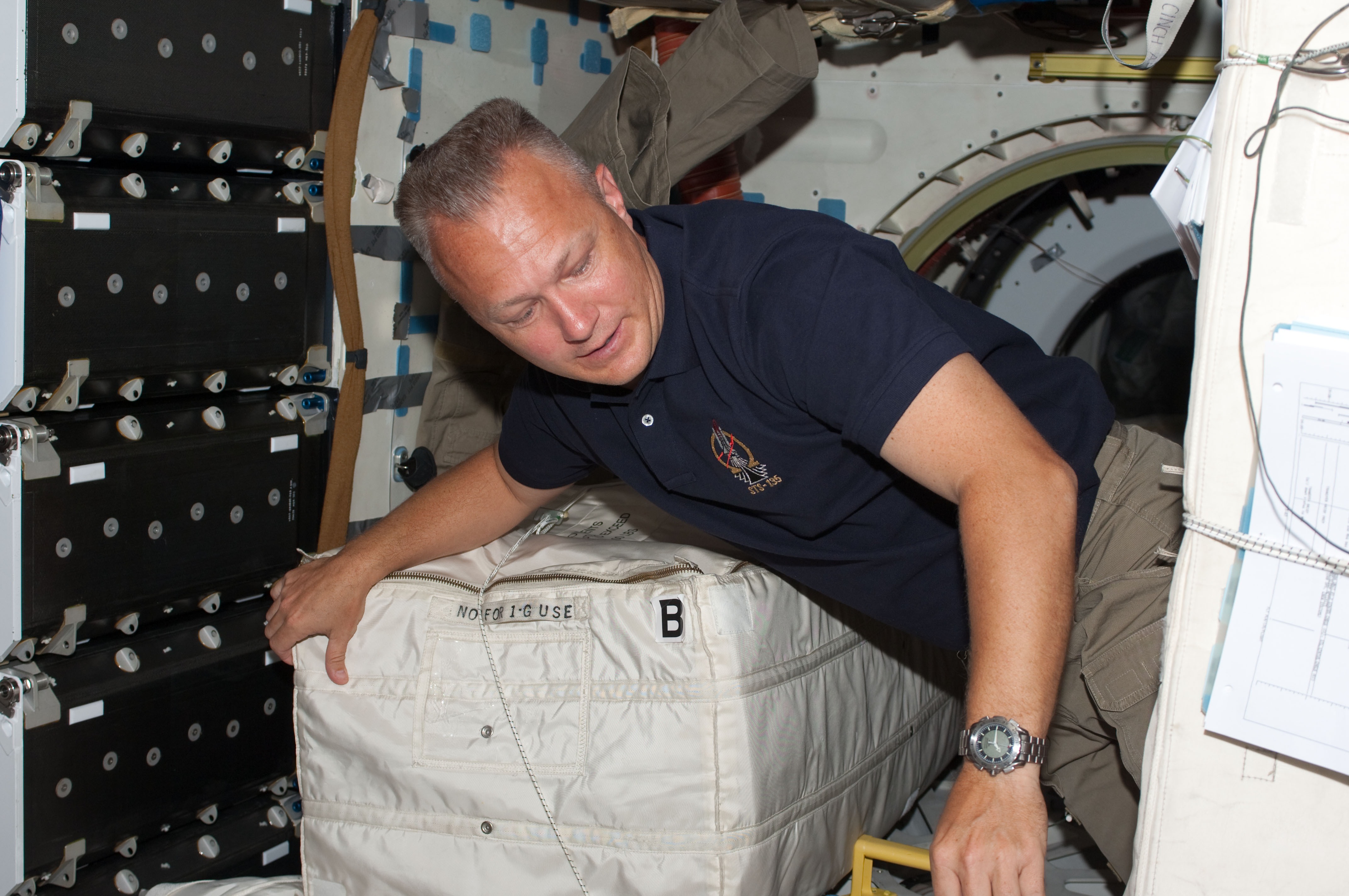 NASA astronaut Doug Hurley, STS-135 pilot, tapes up a supply bag on the middeck of the space shuttle Atlantis while the spacecraft was docked with the International Space Station. Most of the ten crewmembers were involved in transfer operations.